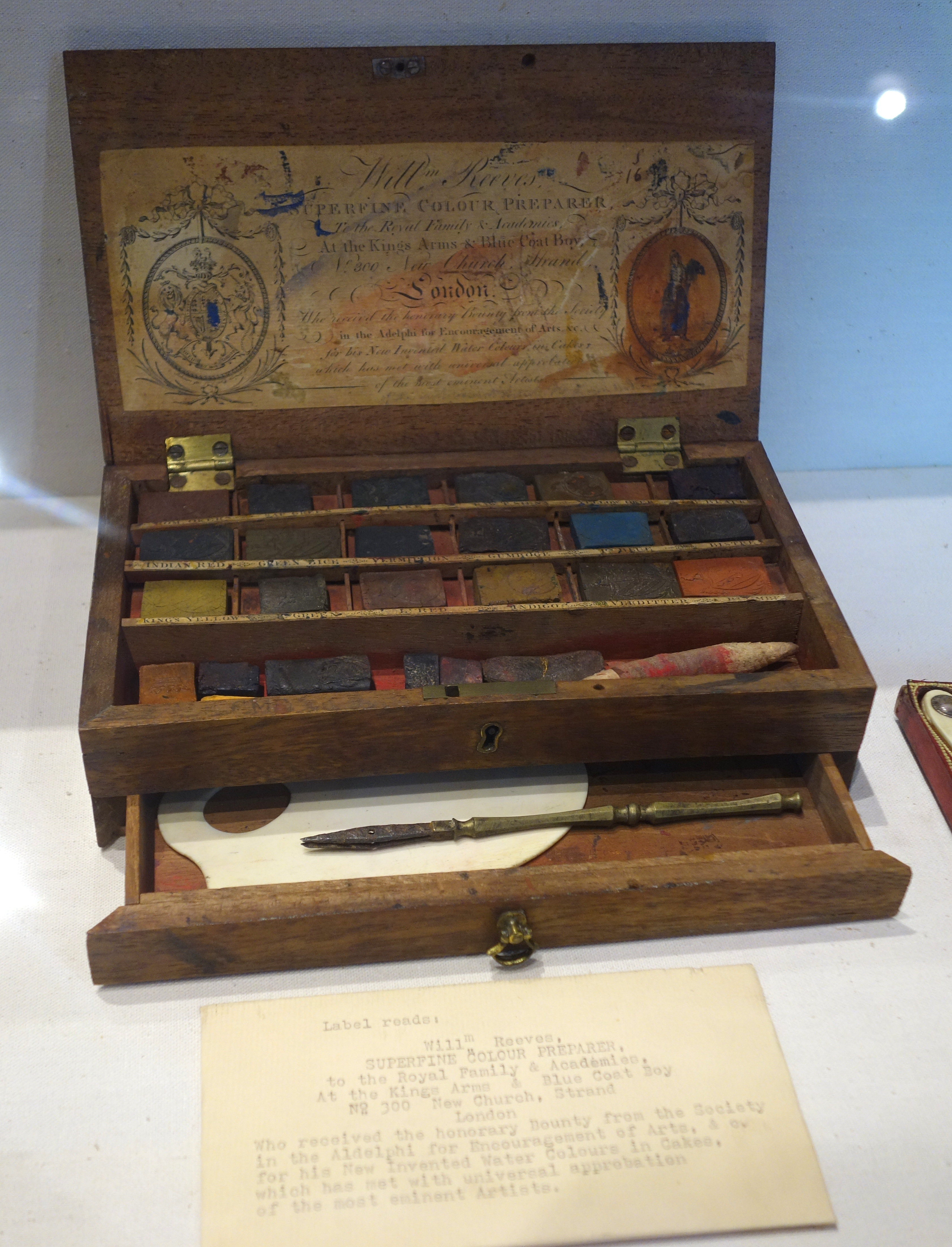 Exhibit in the Joseph Allen Skinner Museum, South Hadley, Massachusetts, USA.